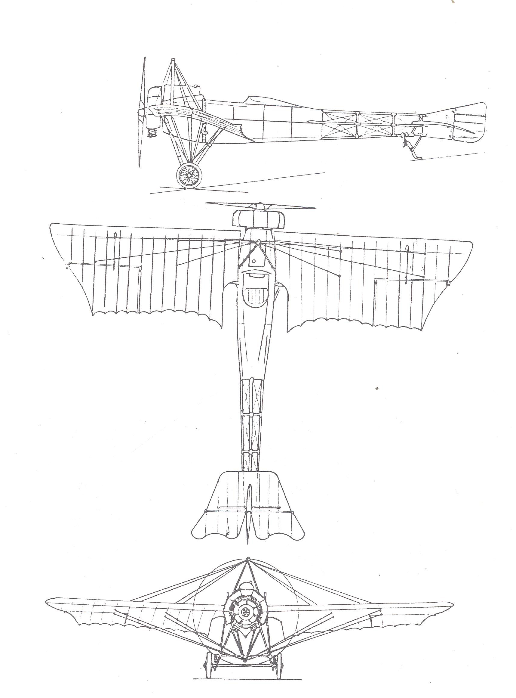 Airplane of Georgy Bozhinov